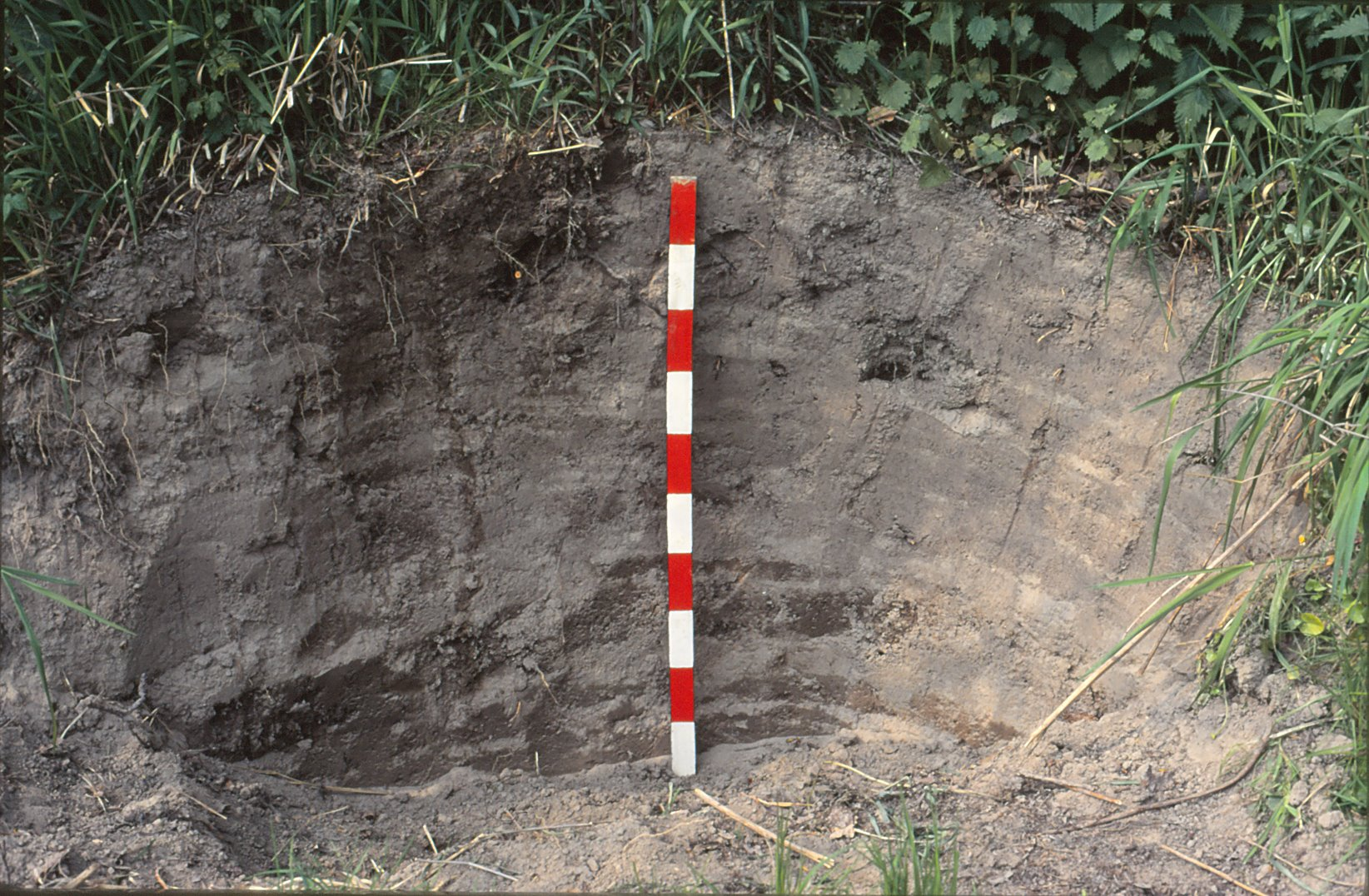 Rambla Fluvisol (aAi-alC-aG) near Elchesheim, Upper Rhine Valley, Germany